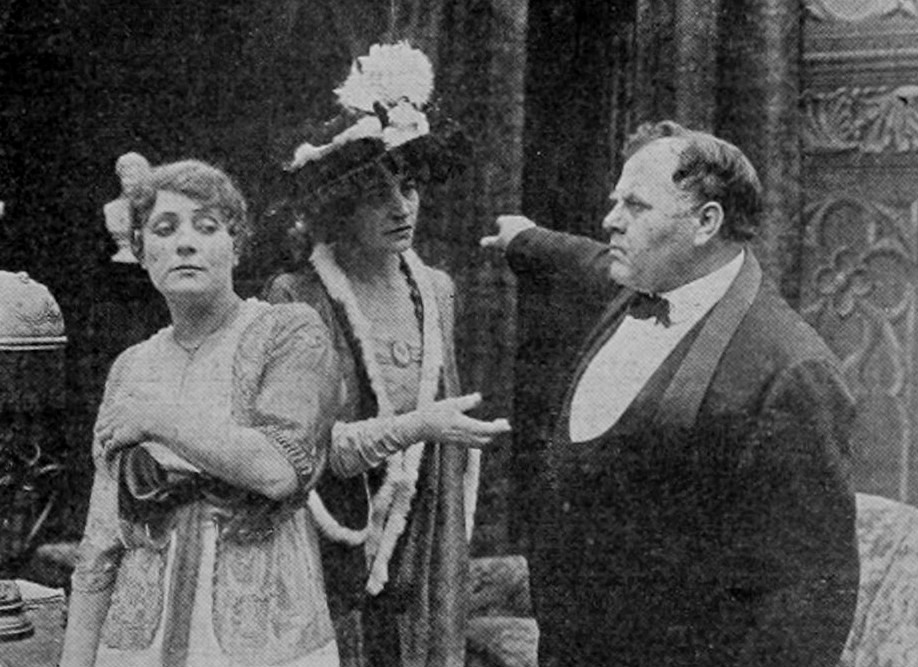 Photo from the 1915 film The Jilt. From left: Winifred Greenwood, Lillian Knight and John Stepling as film characters Marie Thompson, her parents Mr. & Mrs Thompson.